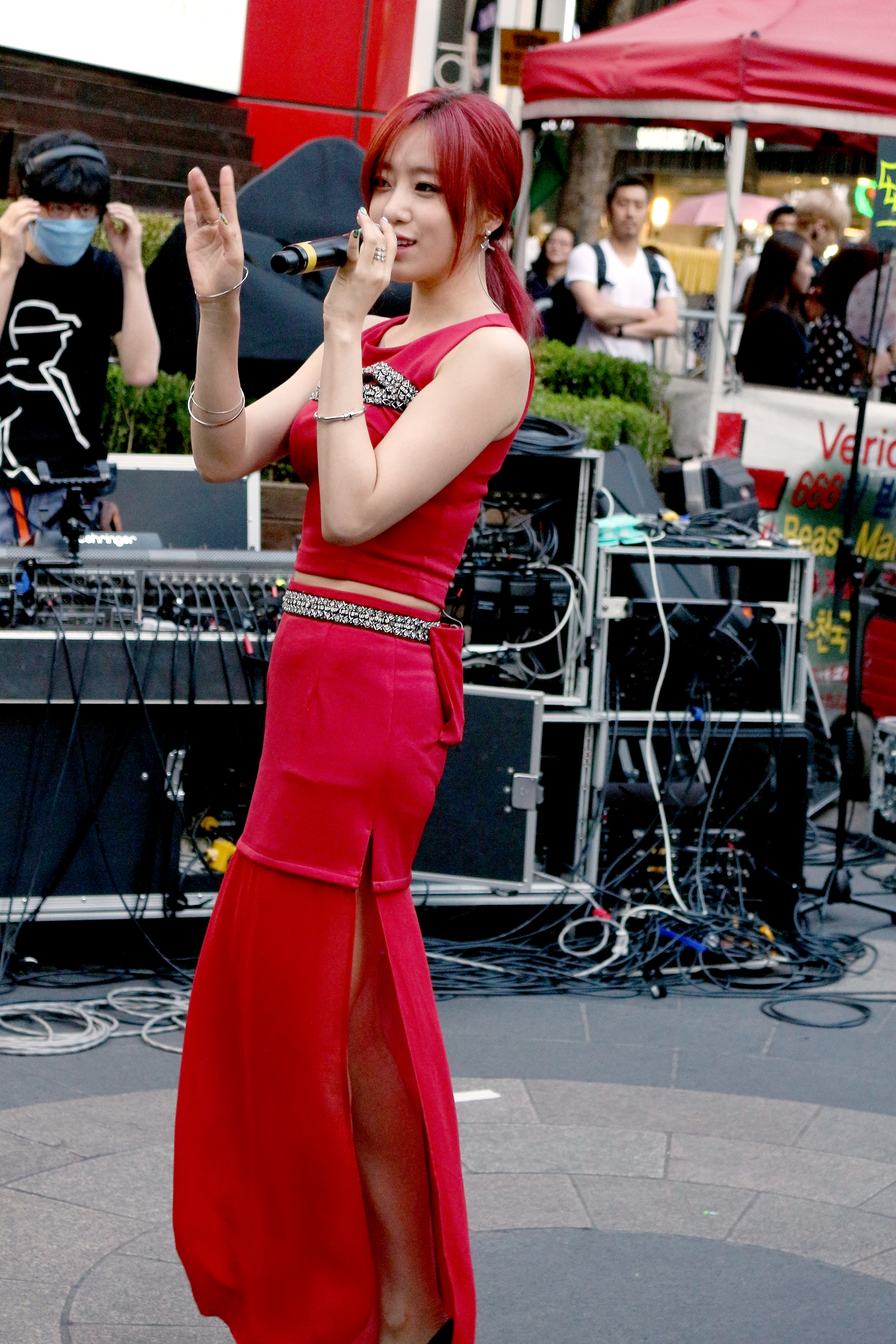 150531 Eunjung - MyeongDong Busking Concert